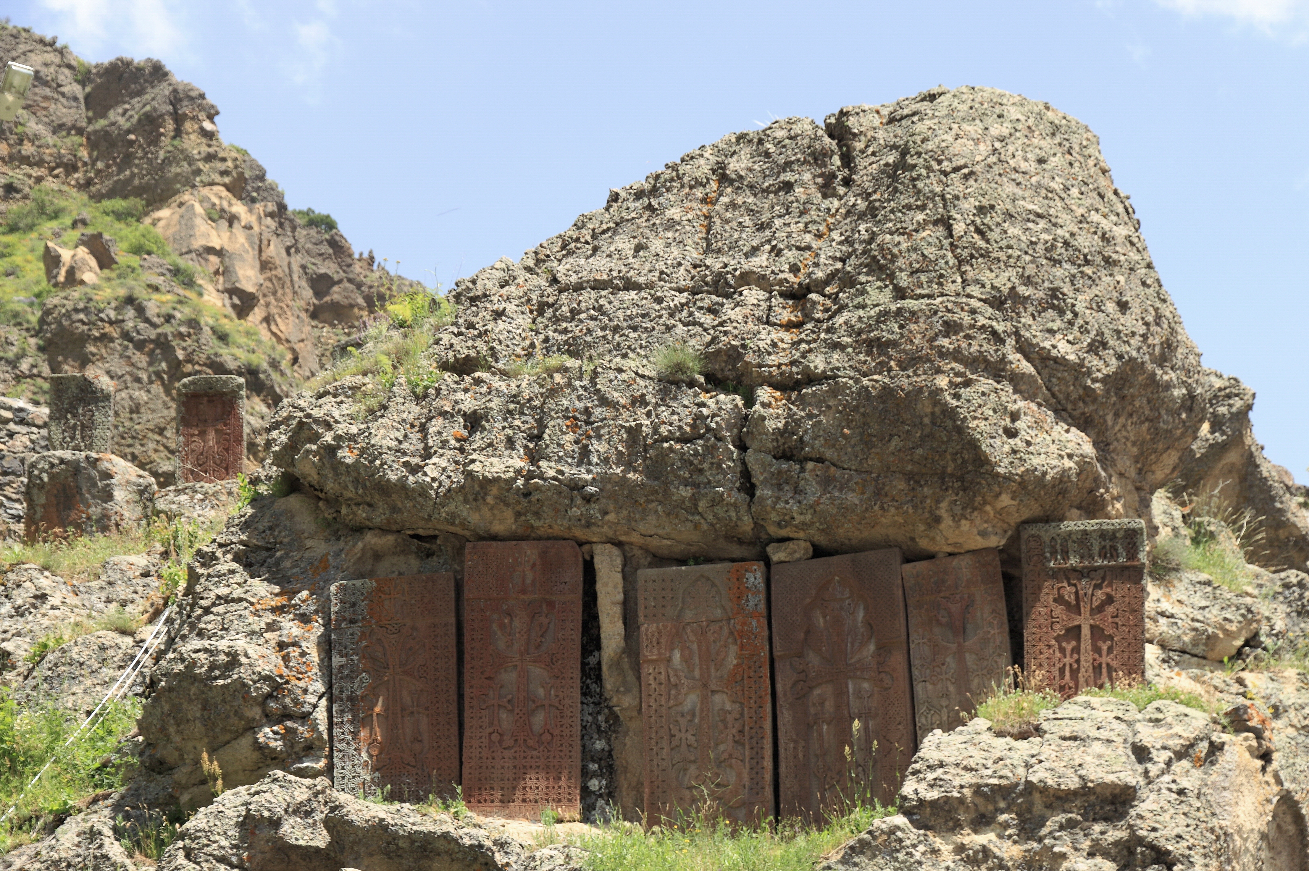 Khachkars. Geghard monastery. Kotayk Province, Armenia.